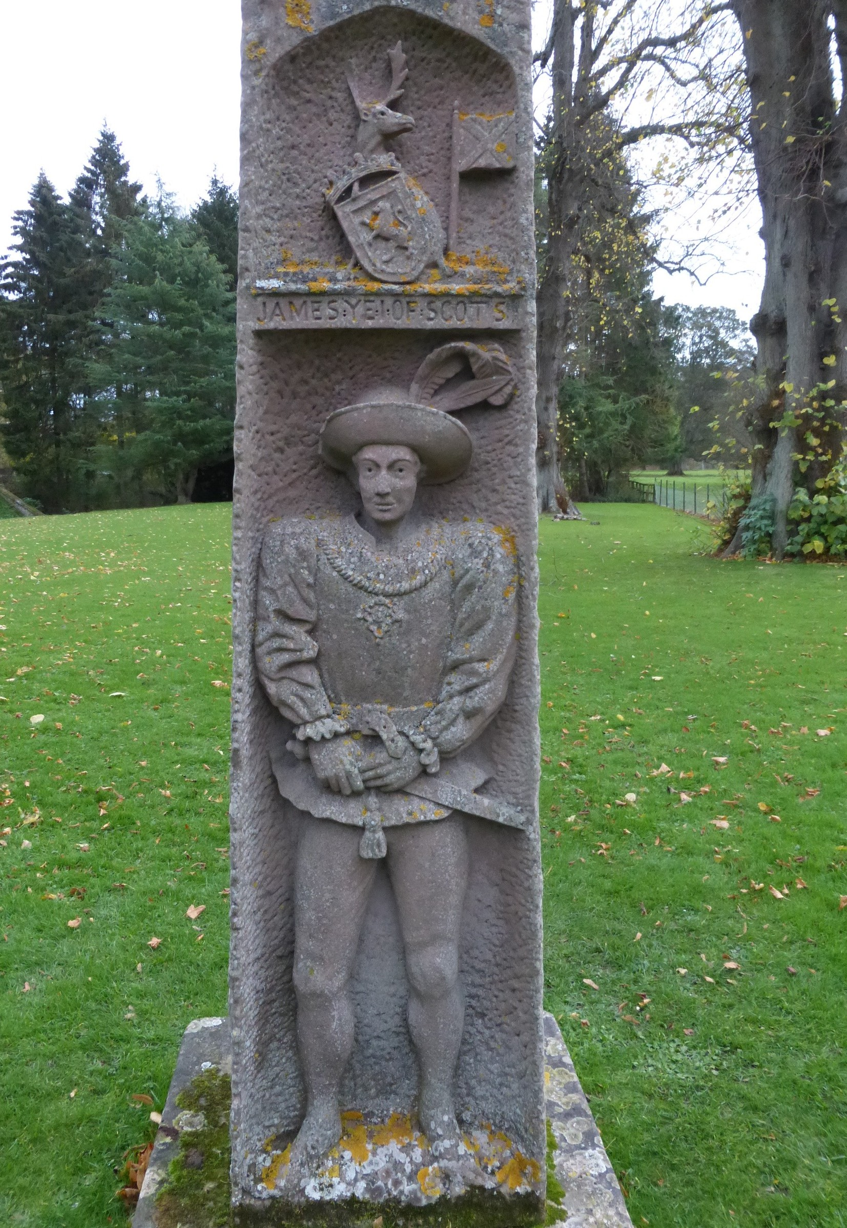 King James I commemorative monument (1814), Dryburgh Abbey, Scottish Borders